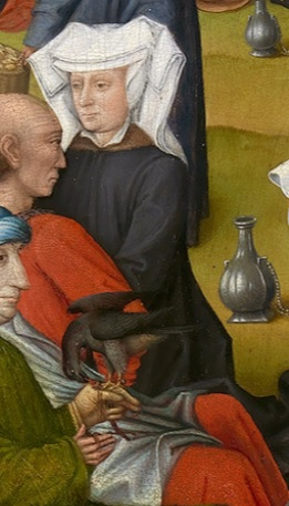 Detail from Triptych with the Miracles of Christ portraying Michelle of Valois.